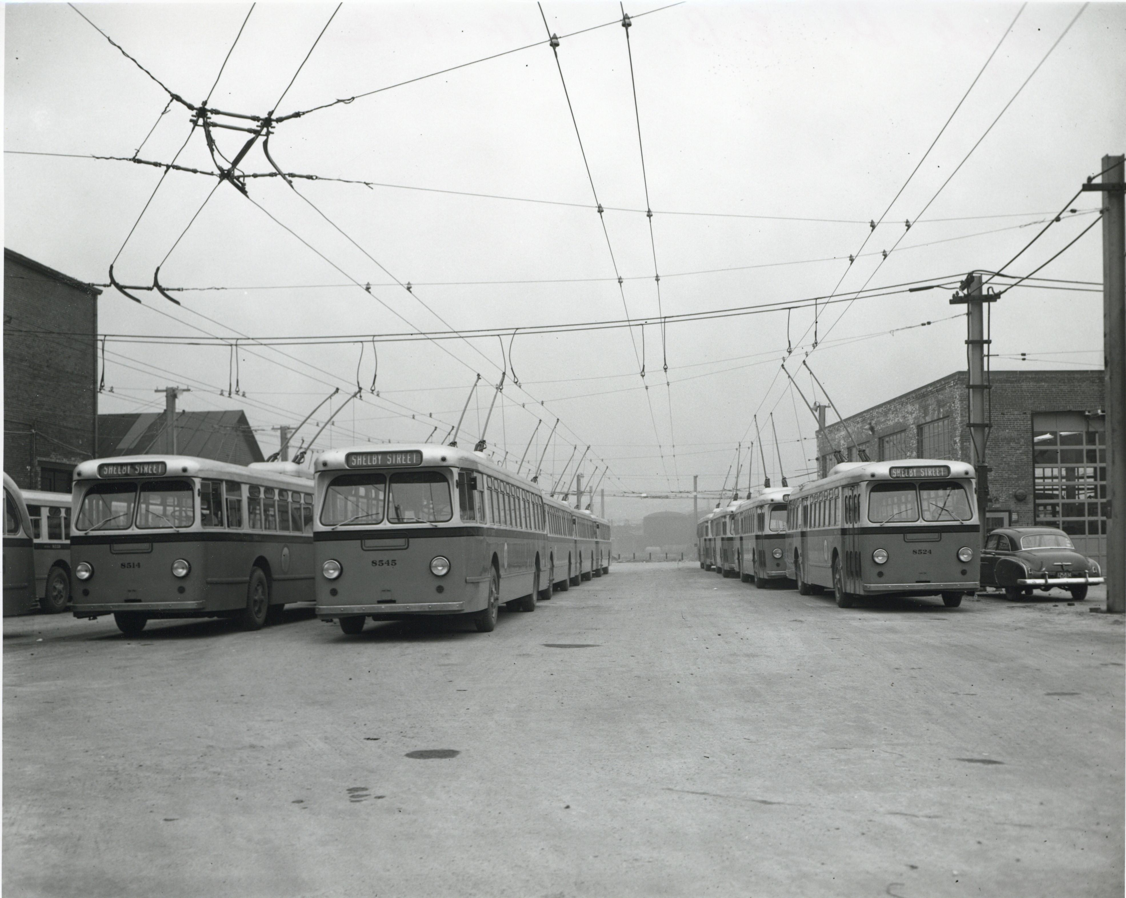 MTA trolleybuses at Eagle Street Carhouse in East Boston in January 1952, shortly after the Revere Extension opened to Orient Heights